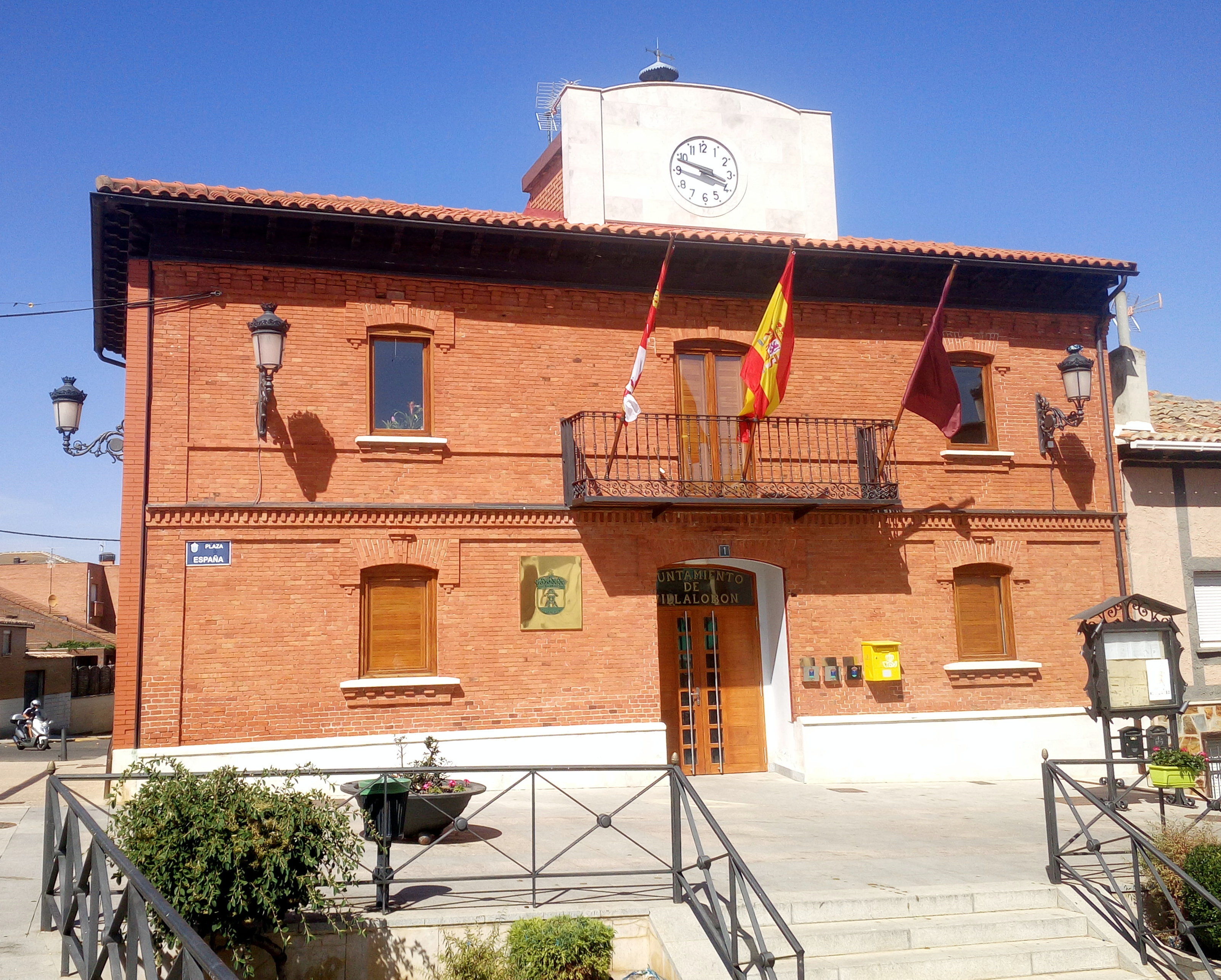 Palencia, Spain.